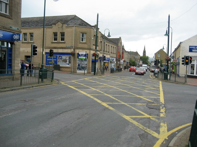 Cowgate, Kirkintilloch Scene in the centre of Kirkintilloch.